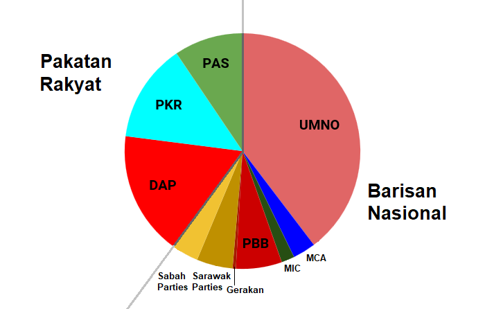 Pie chart representing proportion of parliament seats won by contesting parties.